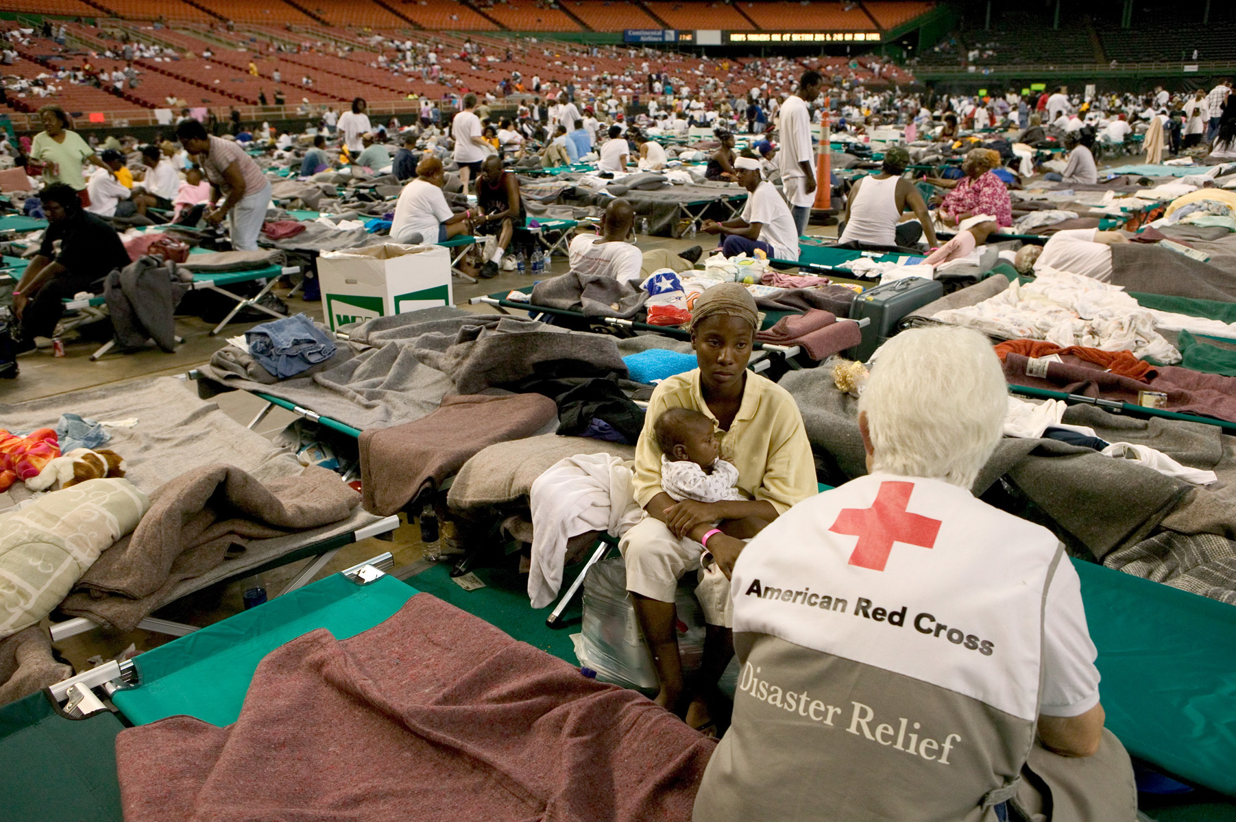 Houston, TX., September 2, 2005 -- A Red Cross volunteer comforts a survivor from hurricane Katrina in the Houston Astrodome. Approximately 18,000 people are temporarily housed in the Red Cross shelter at the Astrodome and Reliant center. The City of New Orleans is being evacuated following hurricane Katrina and rising flood waters. FEMA photo/Andrea Booher